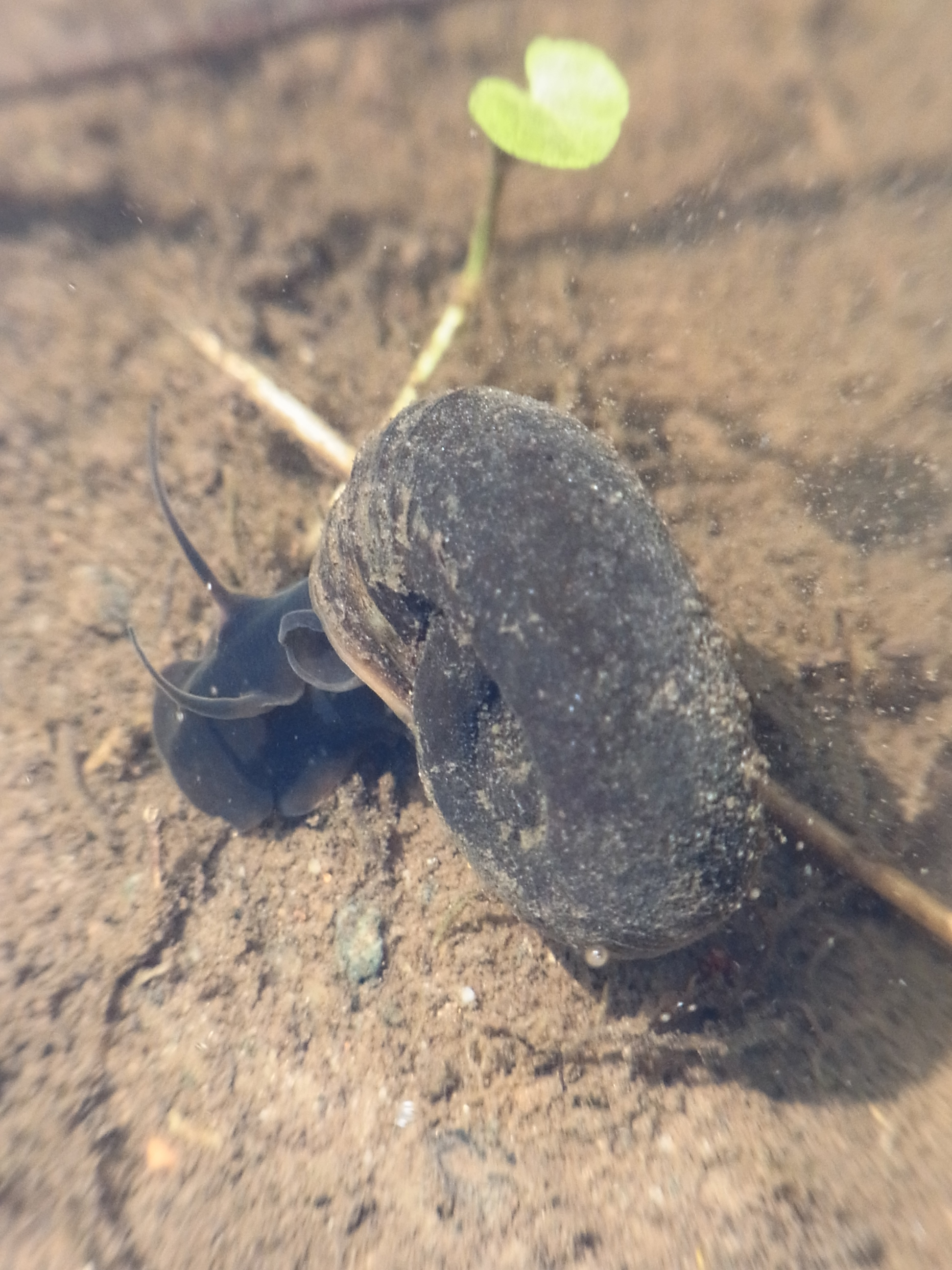 Great Ramshorn (Planorbarius corneus) in a ditch near Riddagshausen (Braunschweig/Germany)